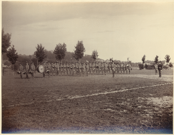 The Morris Drum Corps, the predecessor to the University of Massachusetts Amherst Marching Band